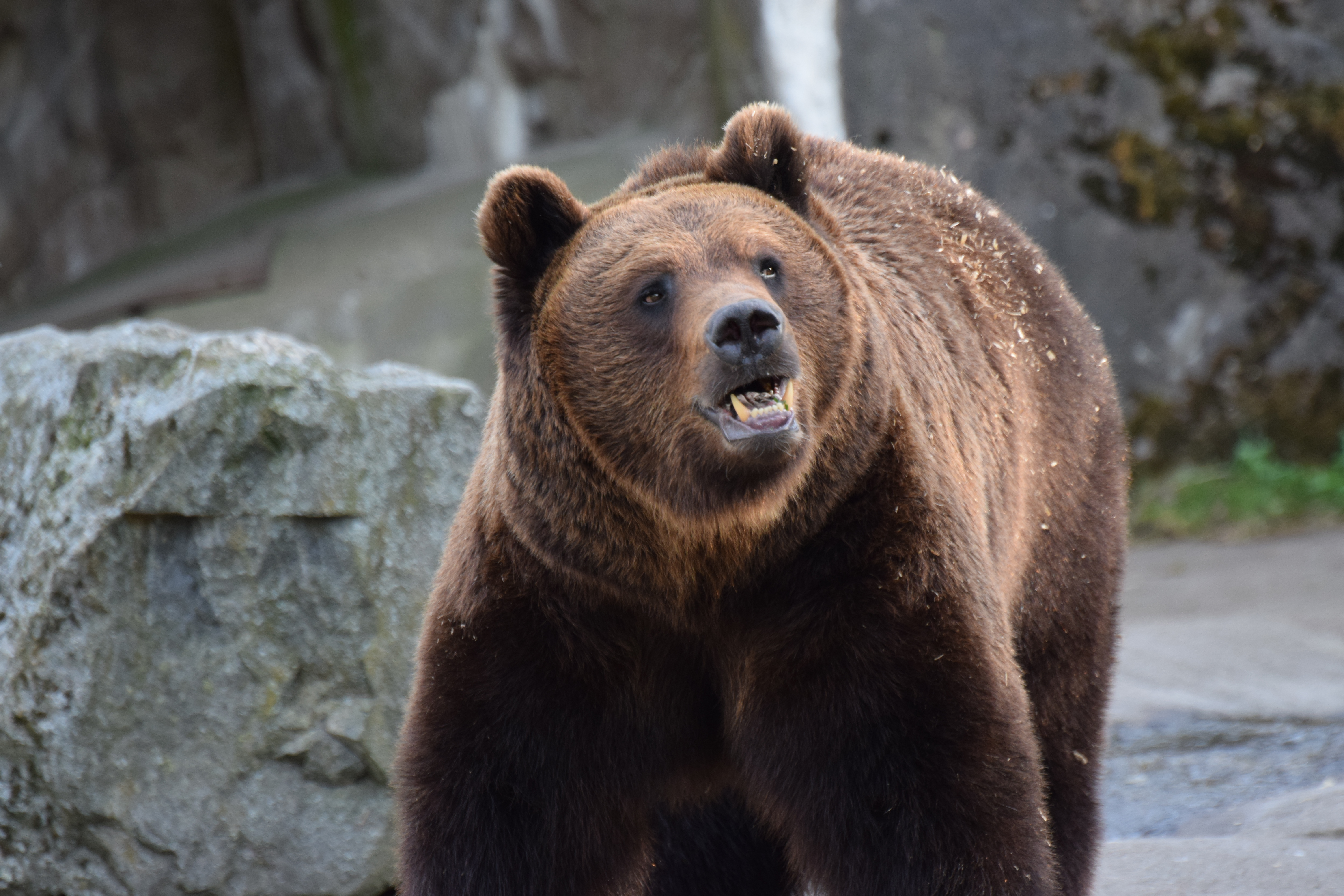 Brown Bear